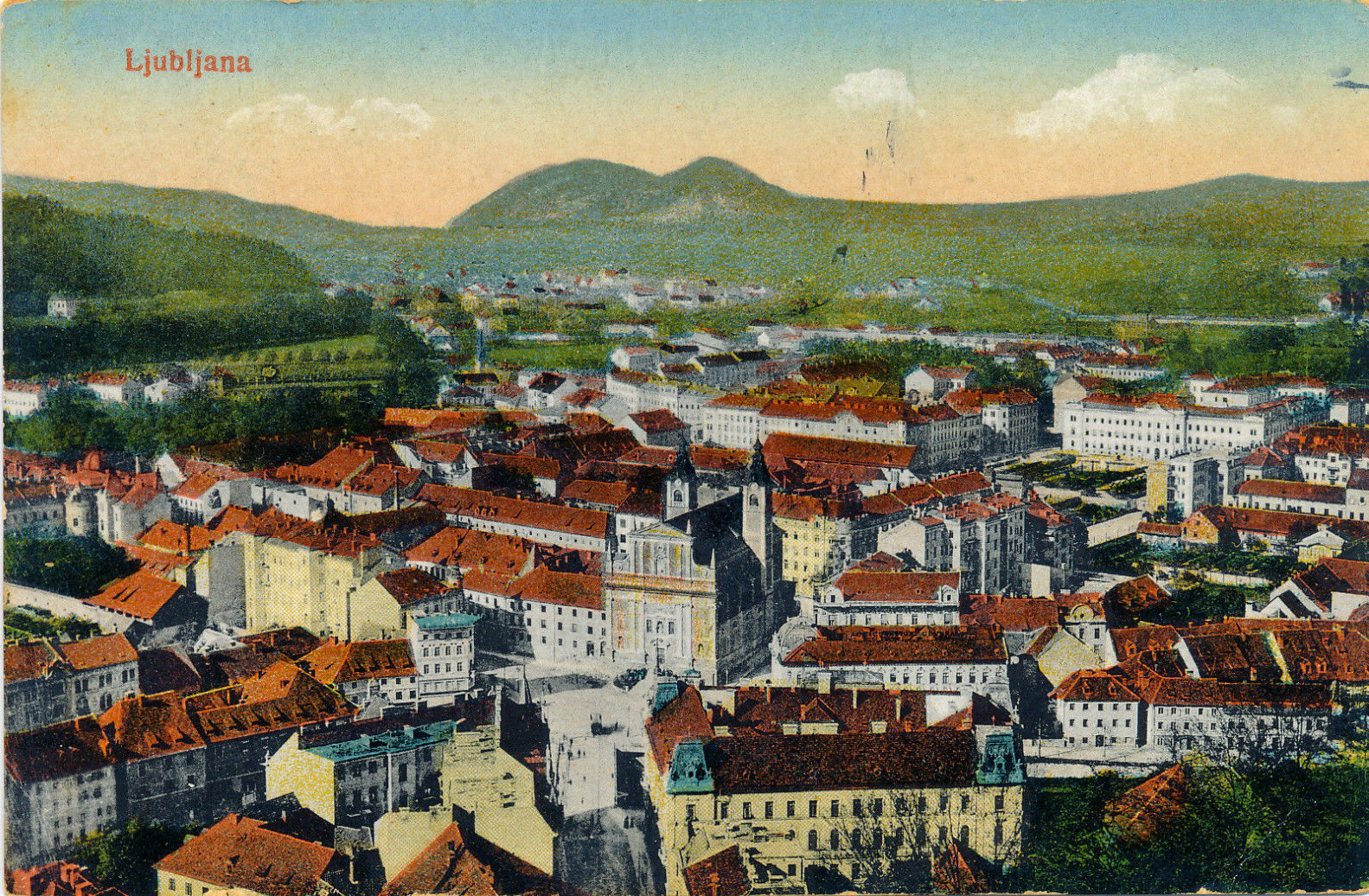 Postcard of Ljubljana view.